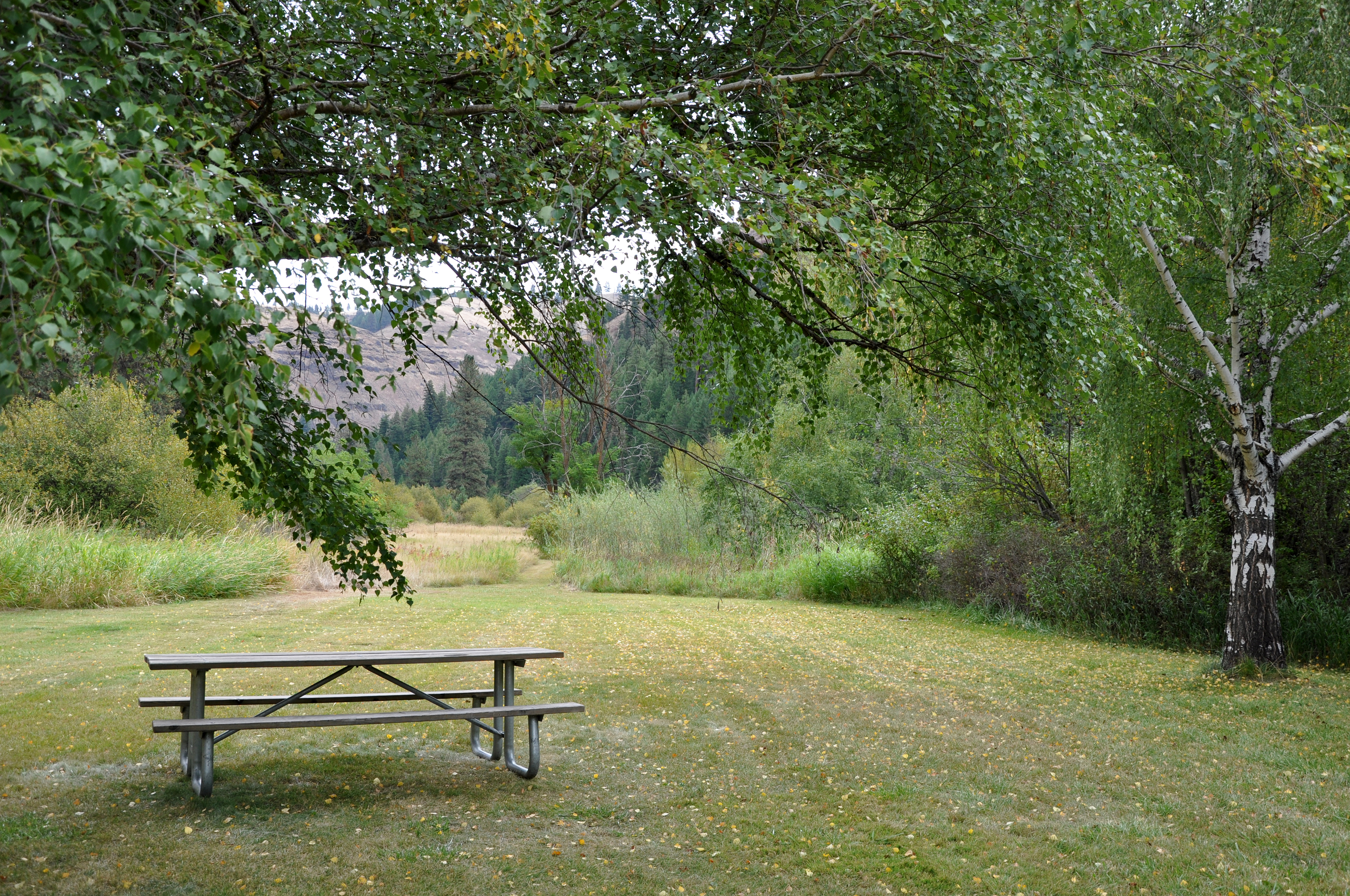 Wallowa River Rest Area in eastern Oregon in the United States